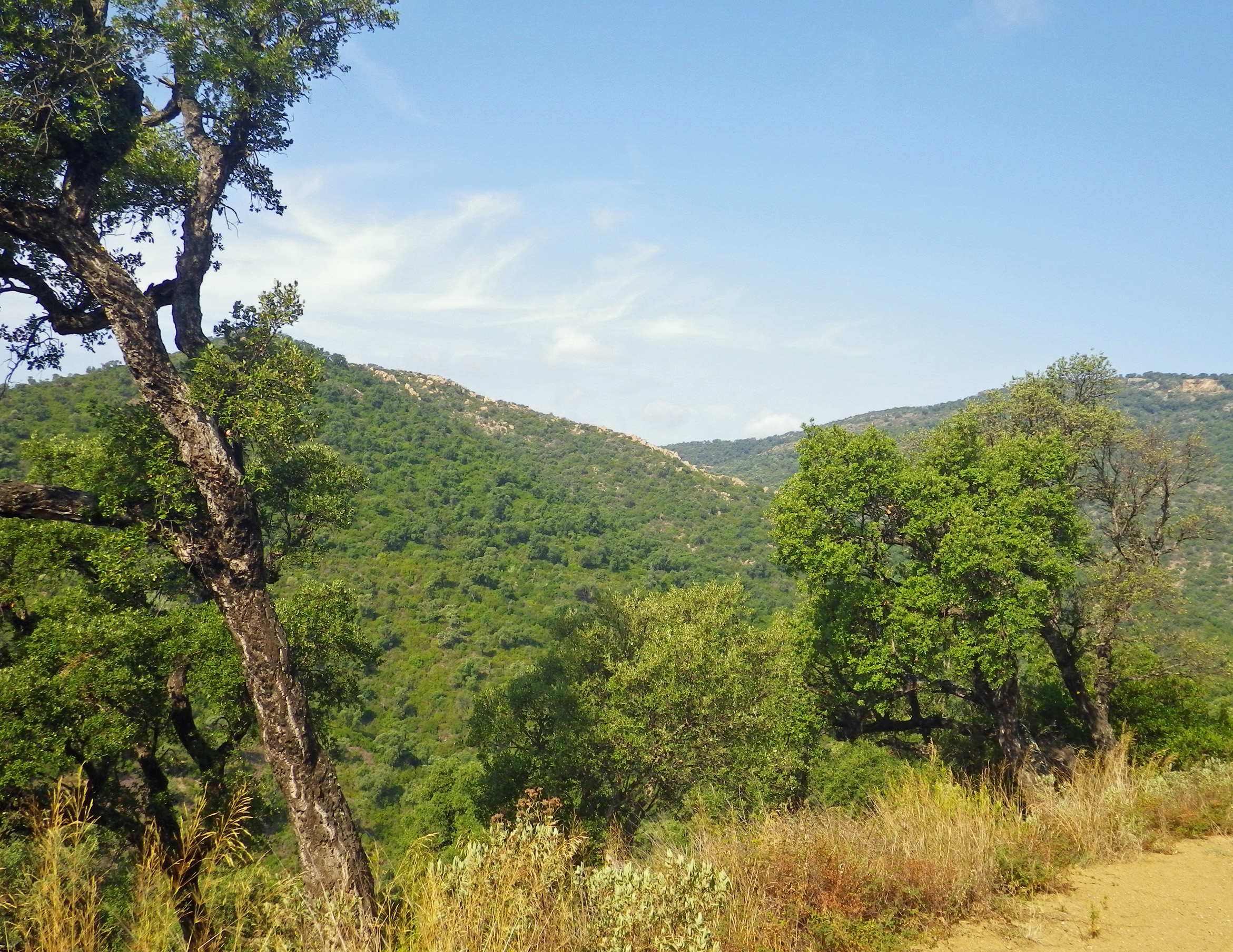 Part of Massif des Maures west to Col du Gratteloup (Bormes-les-Mimosas, Var departement, France)